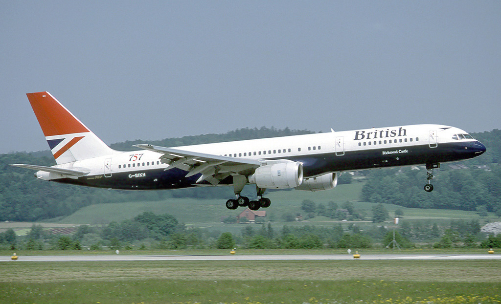 G-BIKH (cn 22179/24) "Richmond Castle"